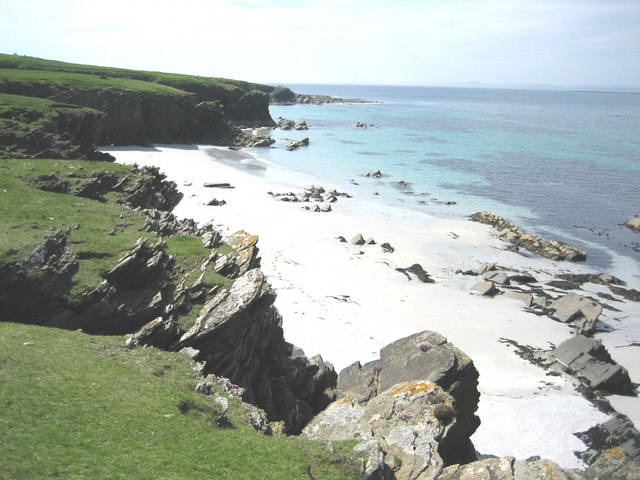 Long Sand, Faray The name suggested for this beautiful sandy beach is based on the 1880 (revised 1900, 2nd edition printed 1903) Ordnance Survey map's name for the large geo located halfway along the beach. The scale for the referenced map is 6 inches = 1 mile.